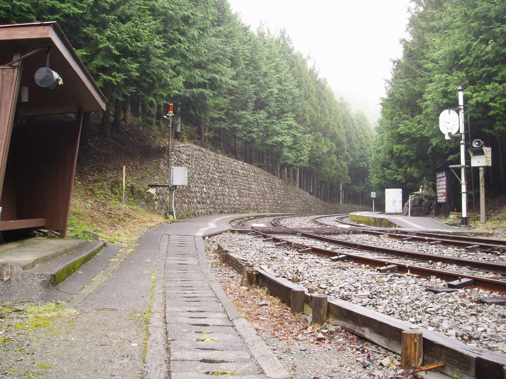 Kanzo Sta.